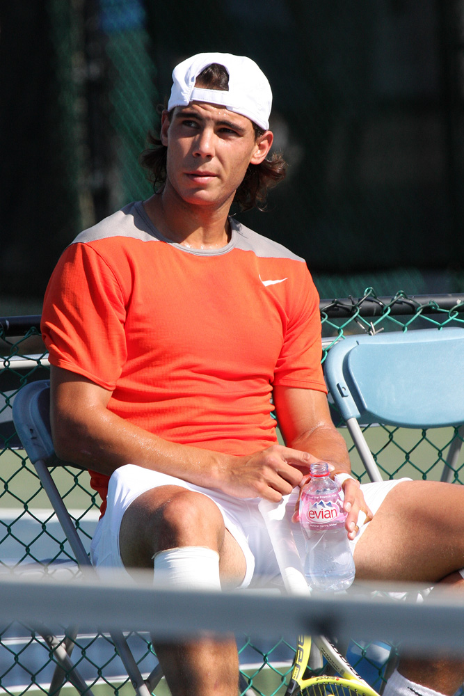 Rafael Nadal Listening to Uncle Toni’s Advice. Practice Court - 2008 Western & Southern Financial Group Masters Mason, Ohio